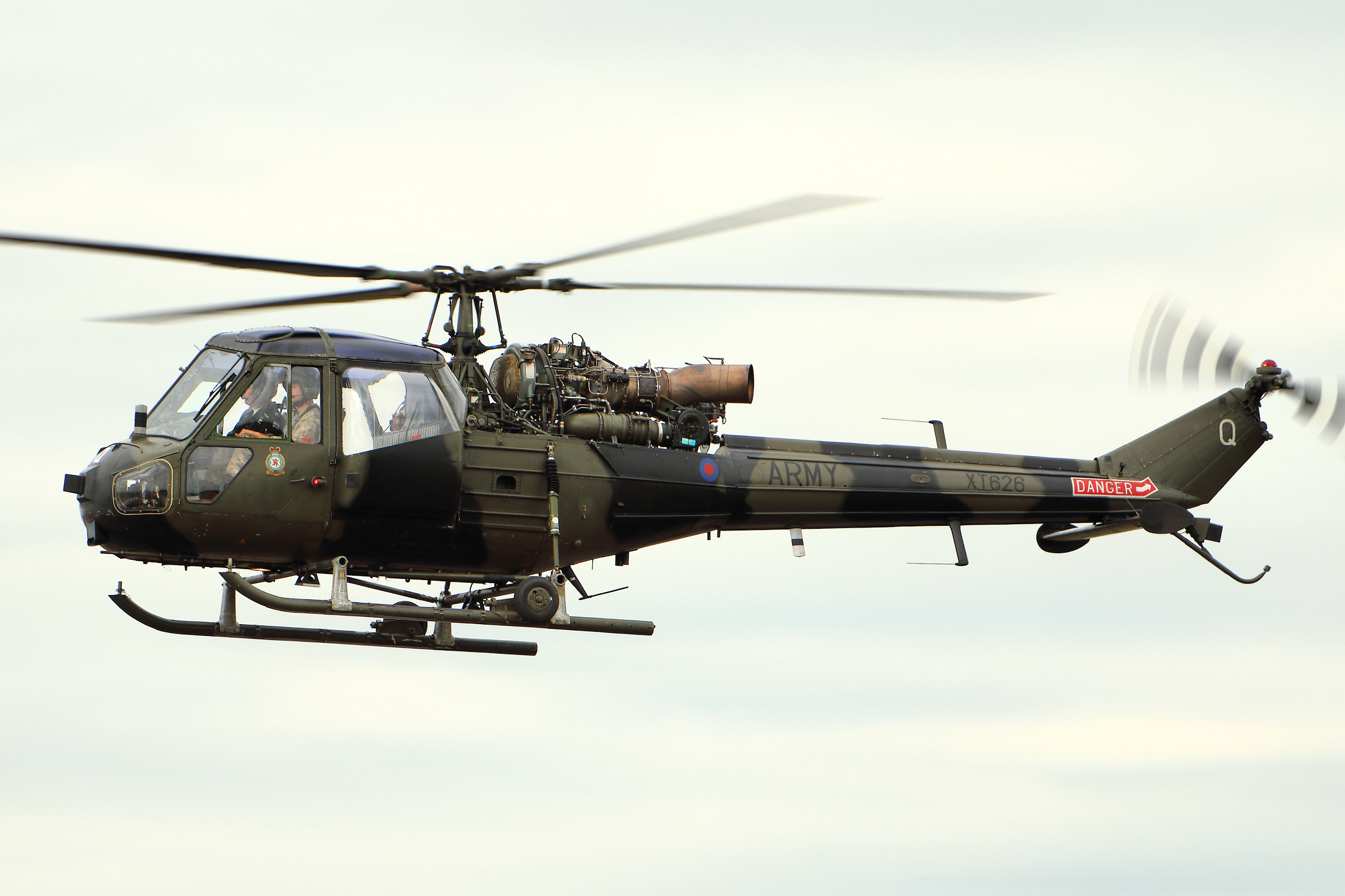 Westland Scout - RIAT 2015